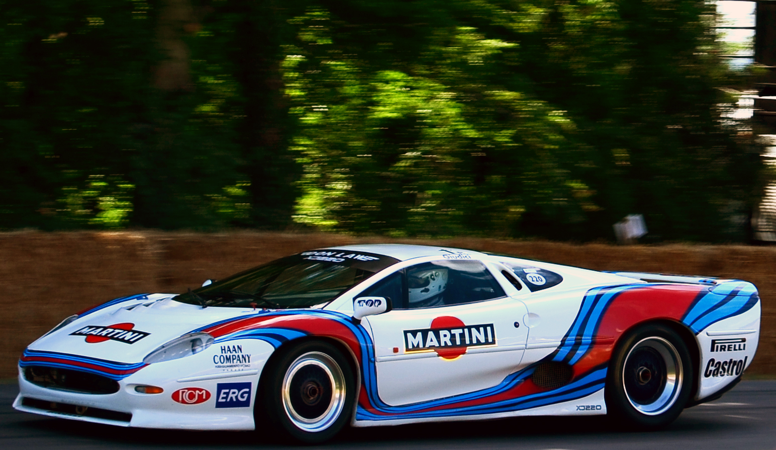 The Jaguar XJ220 at the 2014 Goodwood Festival of Speed.